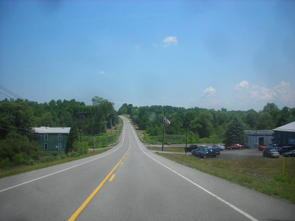 Eastbound on Wayne County Route 205 just outside of the hamlet of Walworth, New York. CR 205 was part of New York State Route 33 during the 1930s and 1940s.